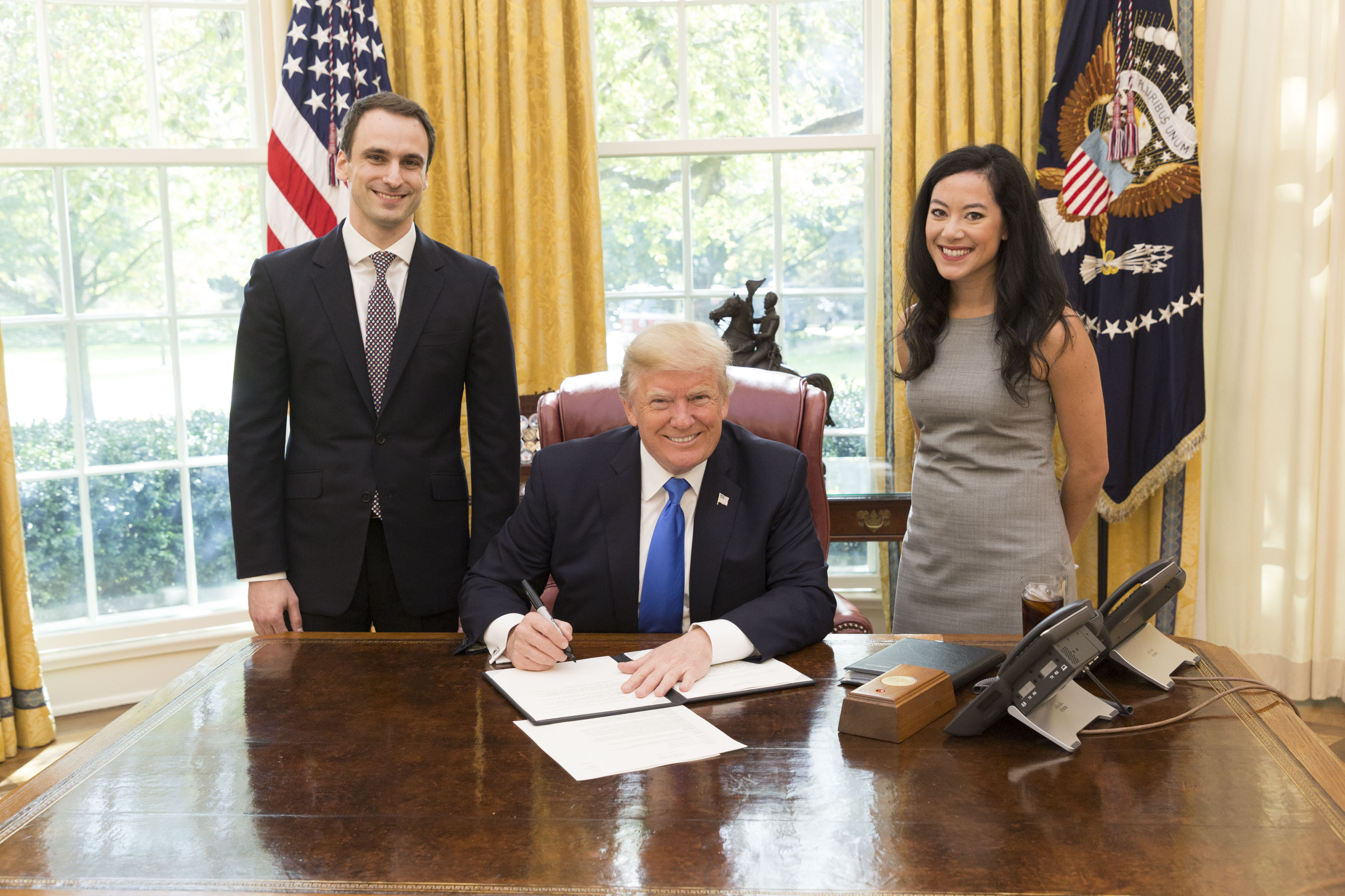 President Donald J. Trump is joined by Deputy Assistant to the President Michael Kratsios and Assistant Staff Secretary Mary Davis as he signs a Presidential Memo calling for a drone integration pilot program, at his desk in the Oval Office, Wednesday, Oct. 25, 2017, at the White House in Washington, D.C. (Official White House Photo by Shealah Craighead)